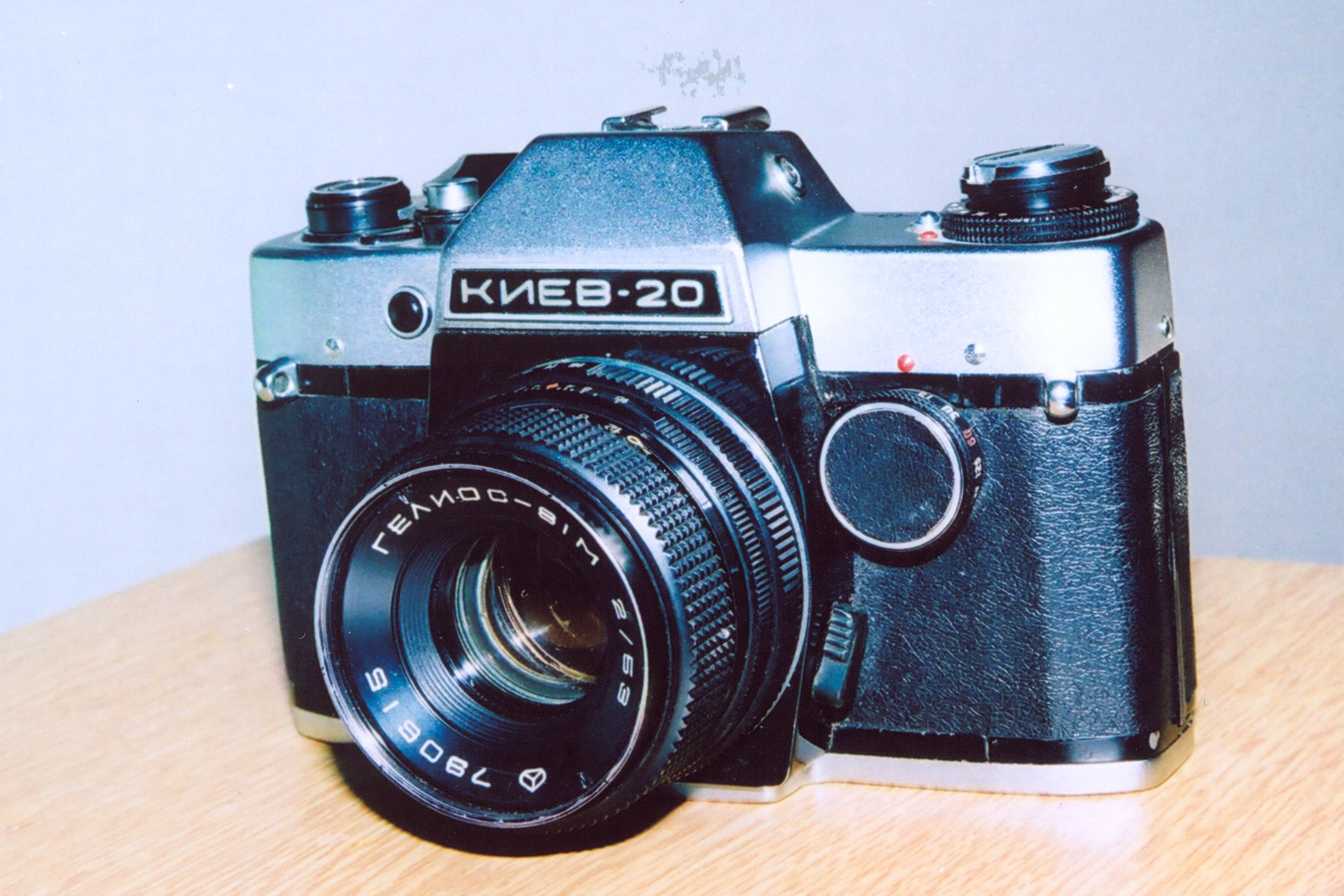 Kiev 20